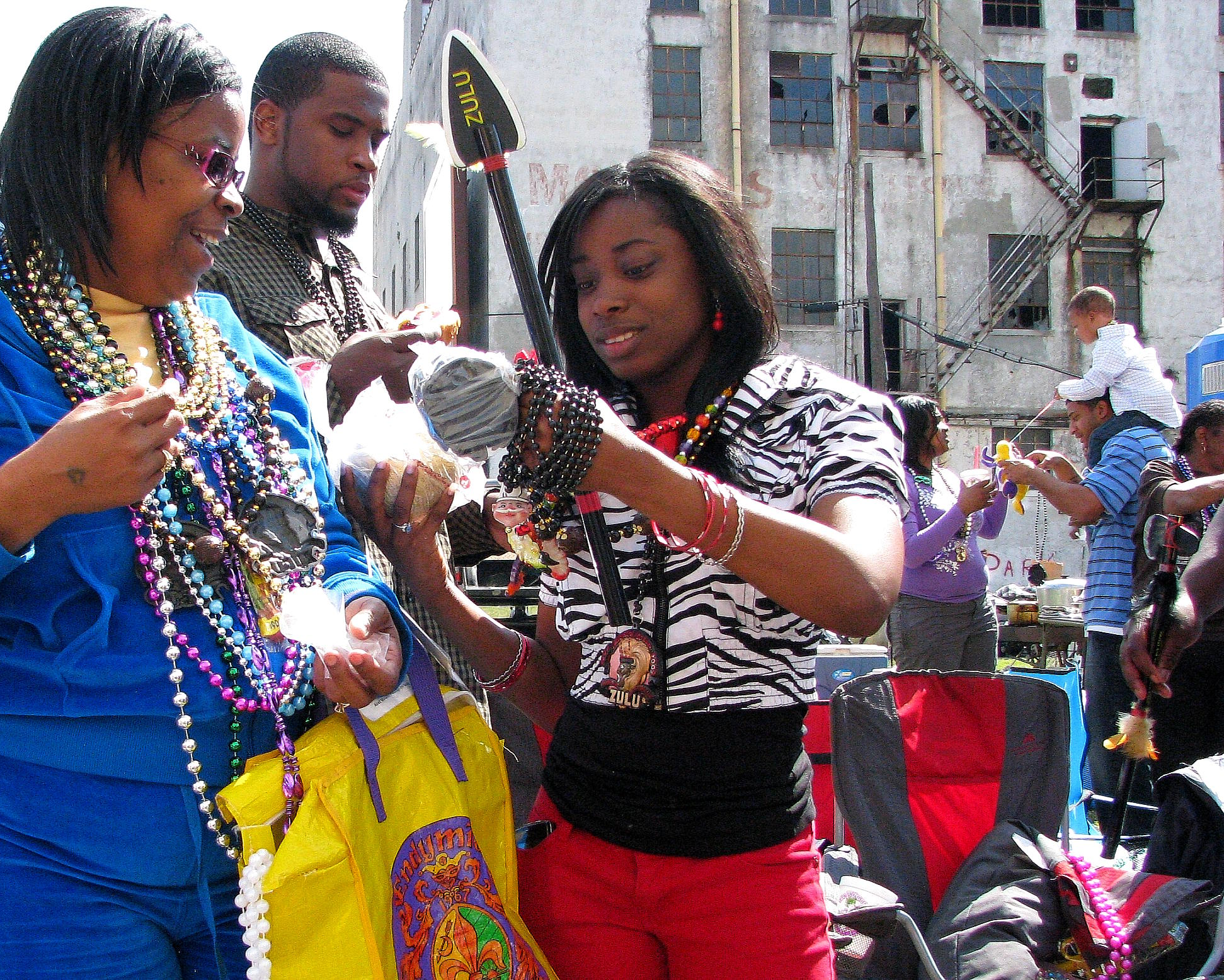 New Orleans Mardi Gras: At the Zulu Parade on Basin Street. Revelers have gotten good "throws", including a famous "Zulu cocoanut".